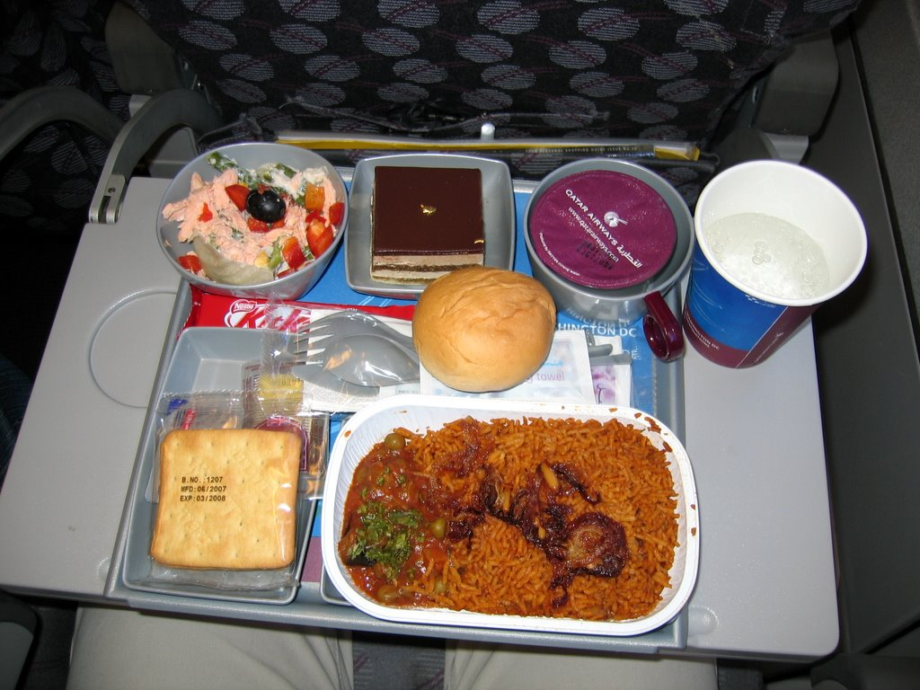 Qatar Airways In-Flight Meal (economy)